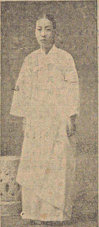 Eom Chae-deok, wife of Korean politicians Min Won-sik, a nephew of Sunheonhwangkuibi Eonssi